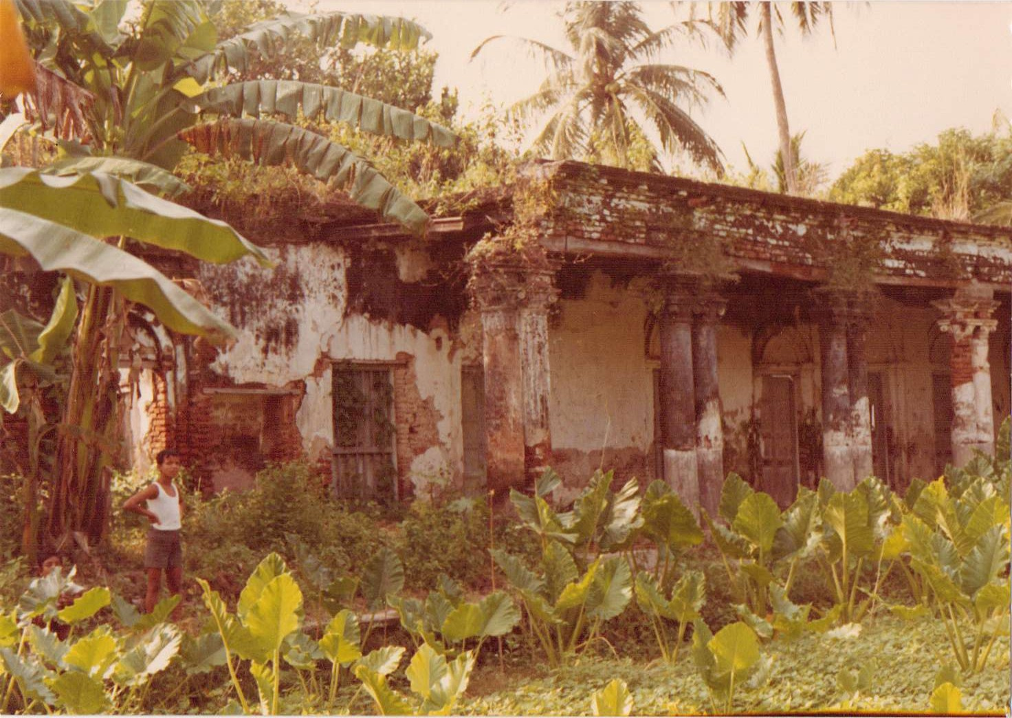 Ruins of the front portion, which housed the judicial office buildings, of the Salam Manzil. Photograph taken in 1982.